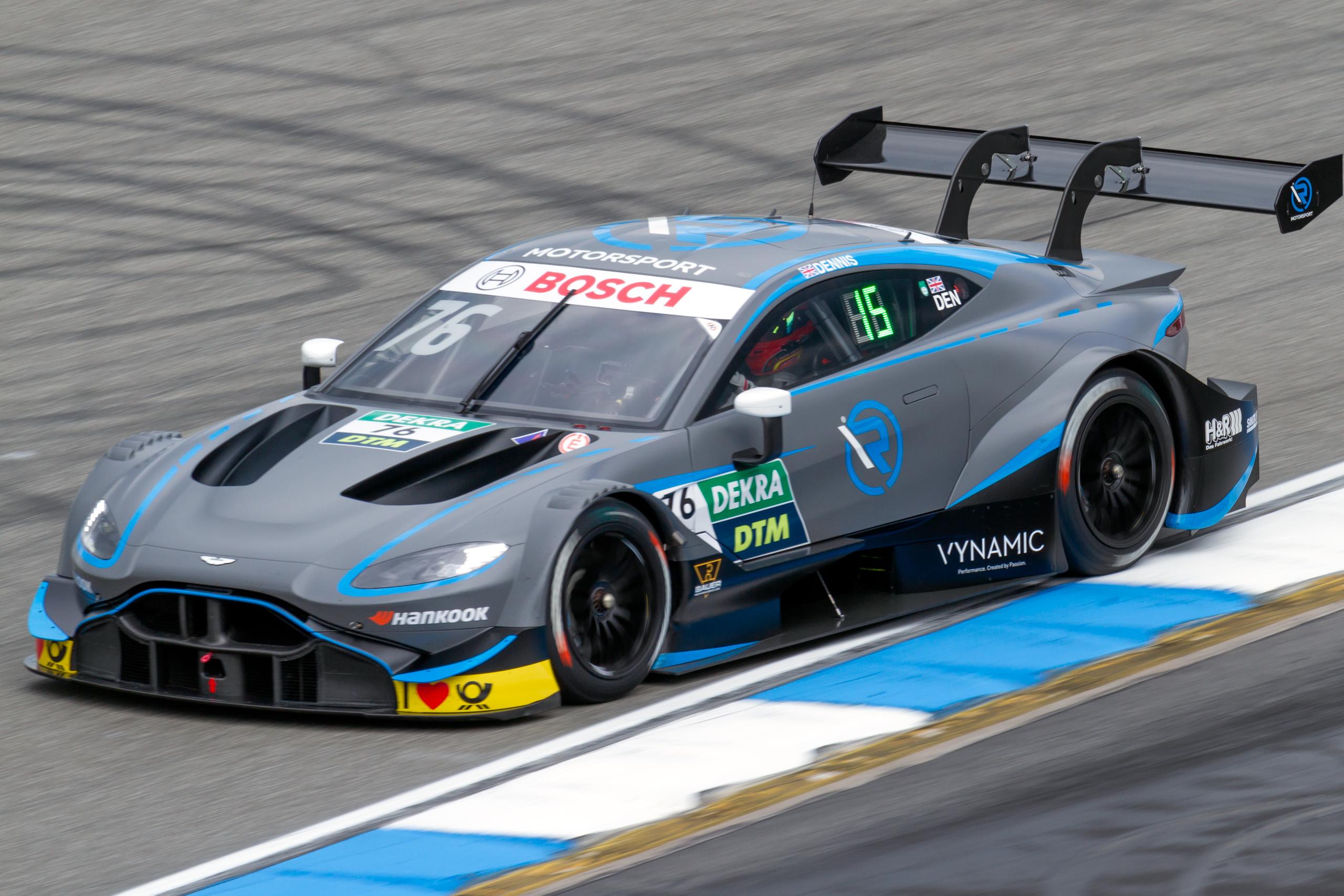 2019 DTM Hockenheimring (May): Aston Martin Vantage DTM of Jake Dennis